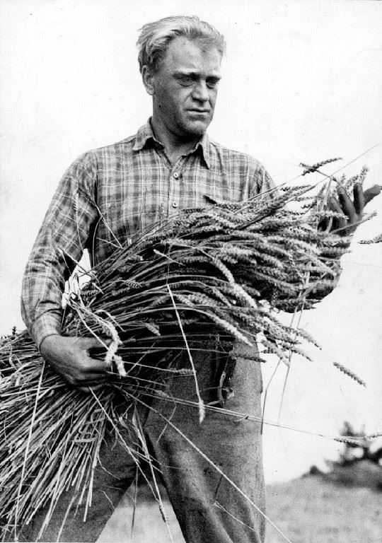 Photo of a middle aged Vilhelm Moberg, likely taken during the 40's-50's or early 60's. SiSwati: Foto av en medelålders Vilhelm Moberg, sannolikt taget på 40-50-talet eller tidigt 60-tal.